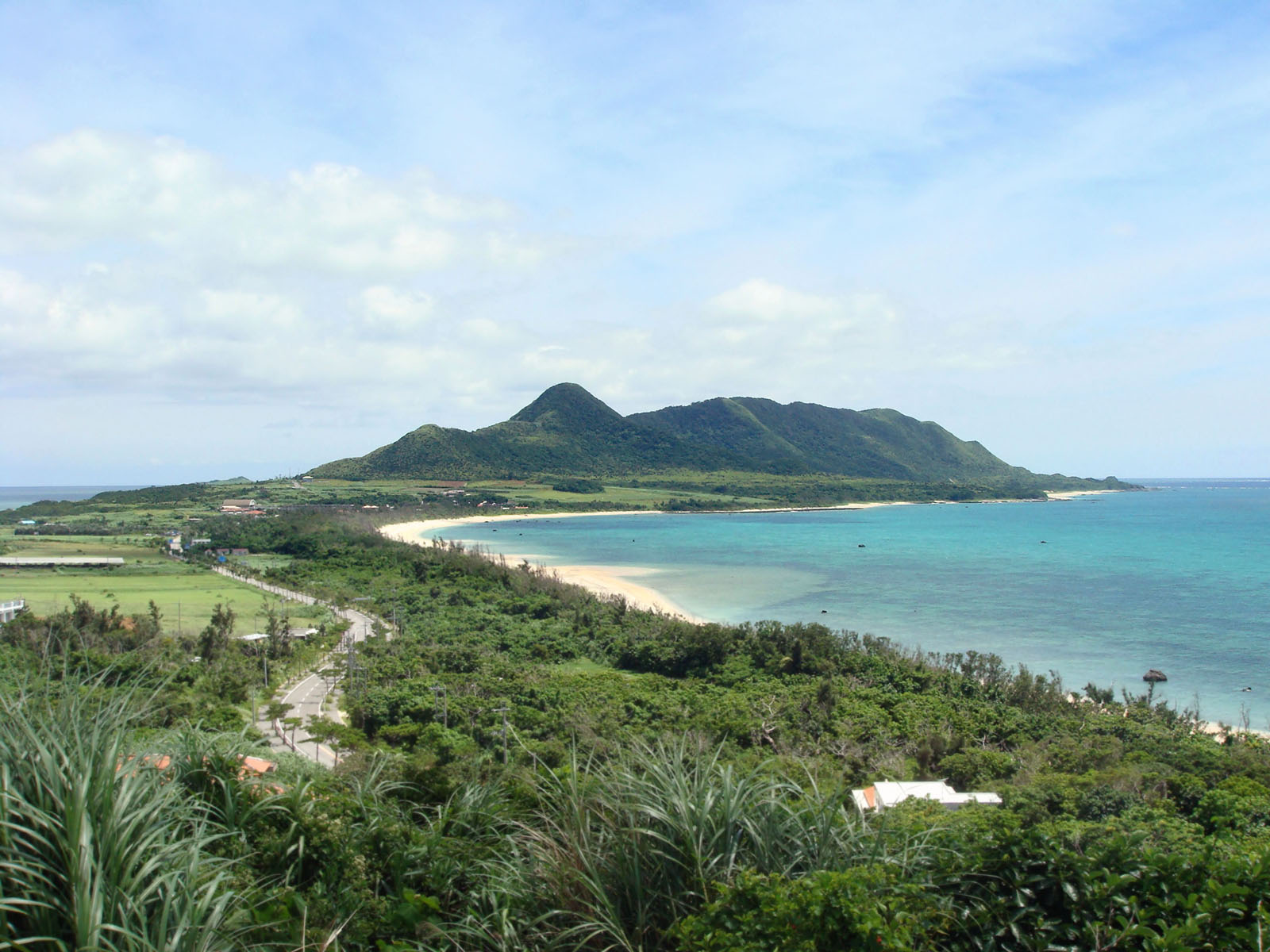 Hirakubo Peninsula, Ishigaki City, Okinawa Prefecture, Japan